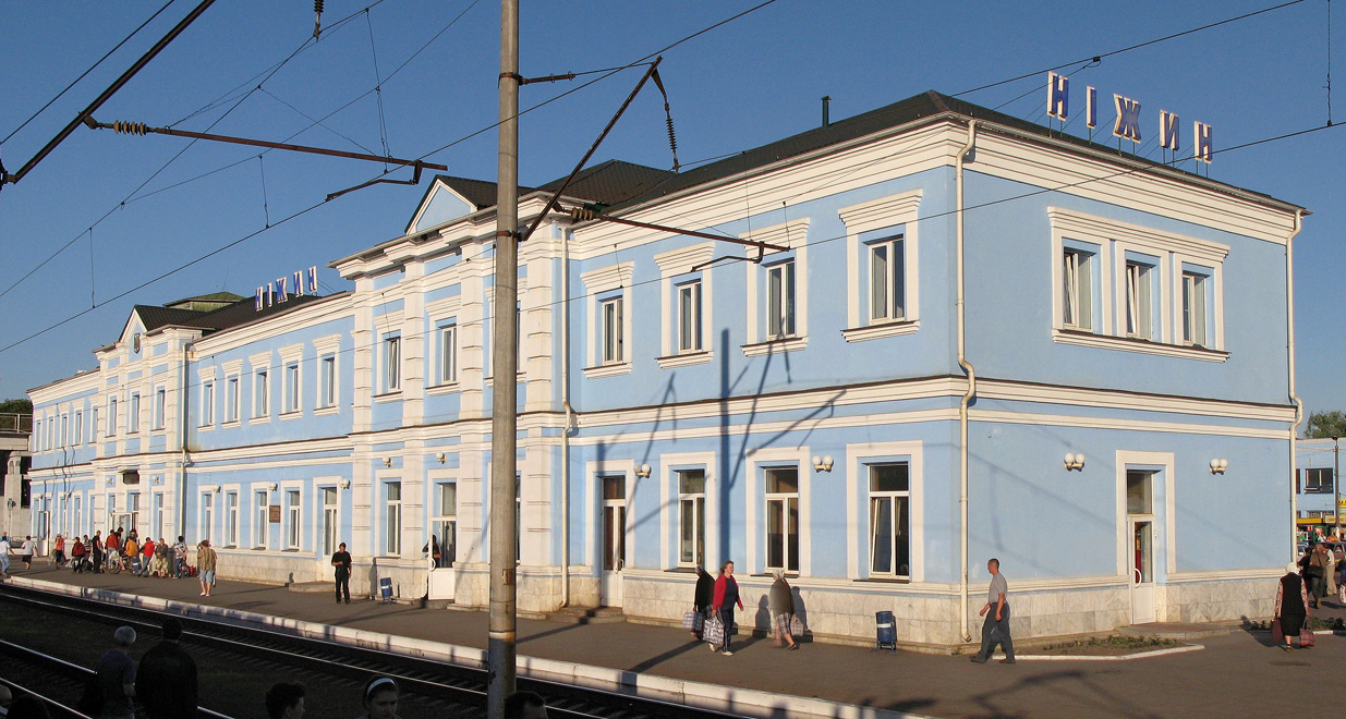 Nizhyn railway station, South-Western Railway, Ukraine.